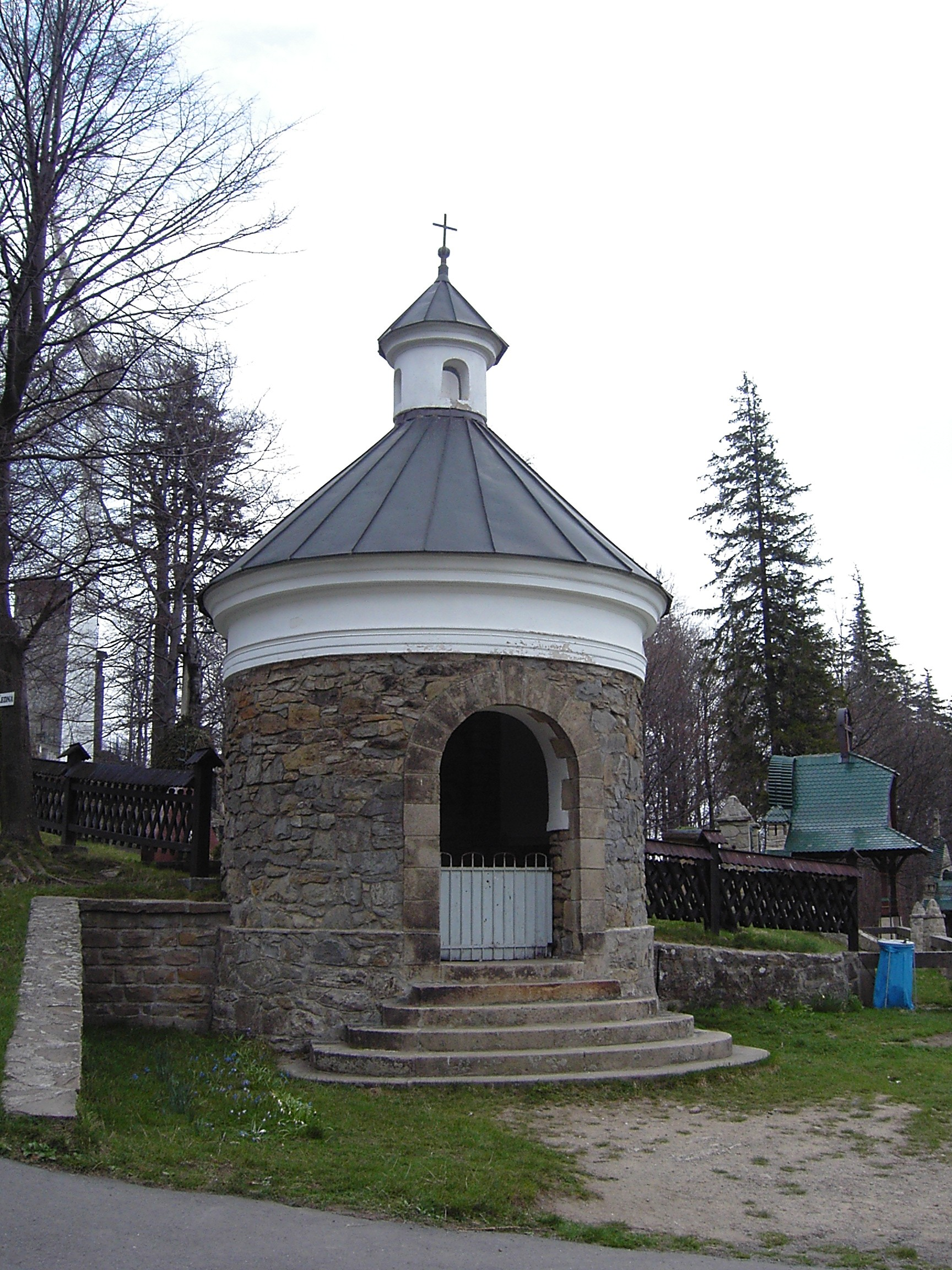 Village chapel on the Hostýn